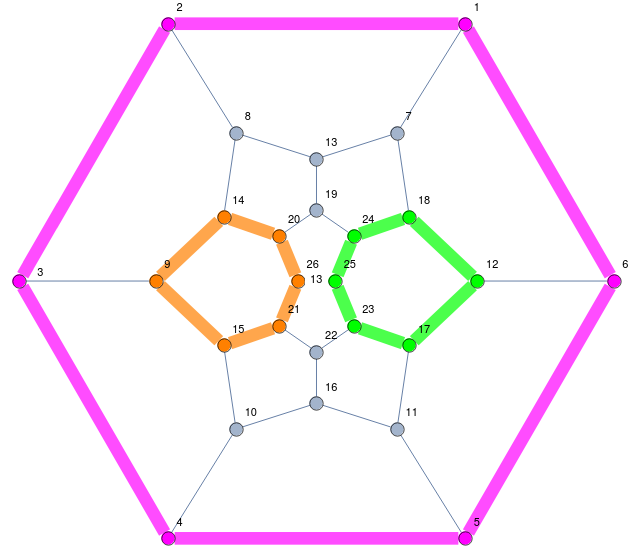 This is the only 26-fullerene. The three hexagonal faces are emphasized.